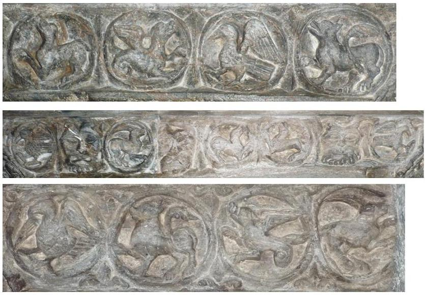 Ornaments from the Stavanger Cathedral. From about 1100-1150.